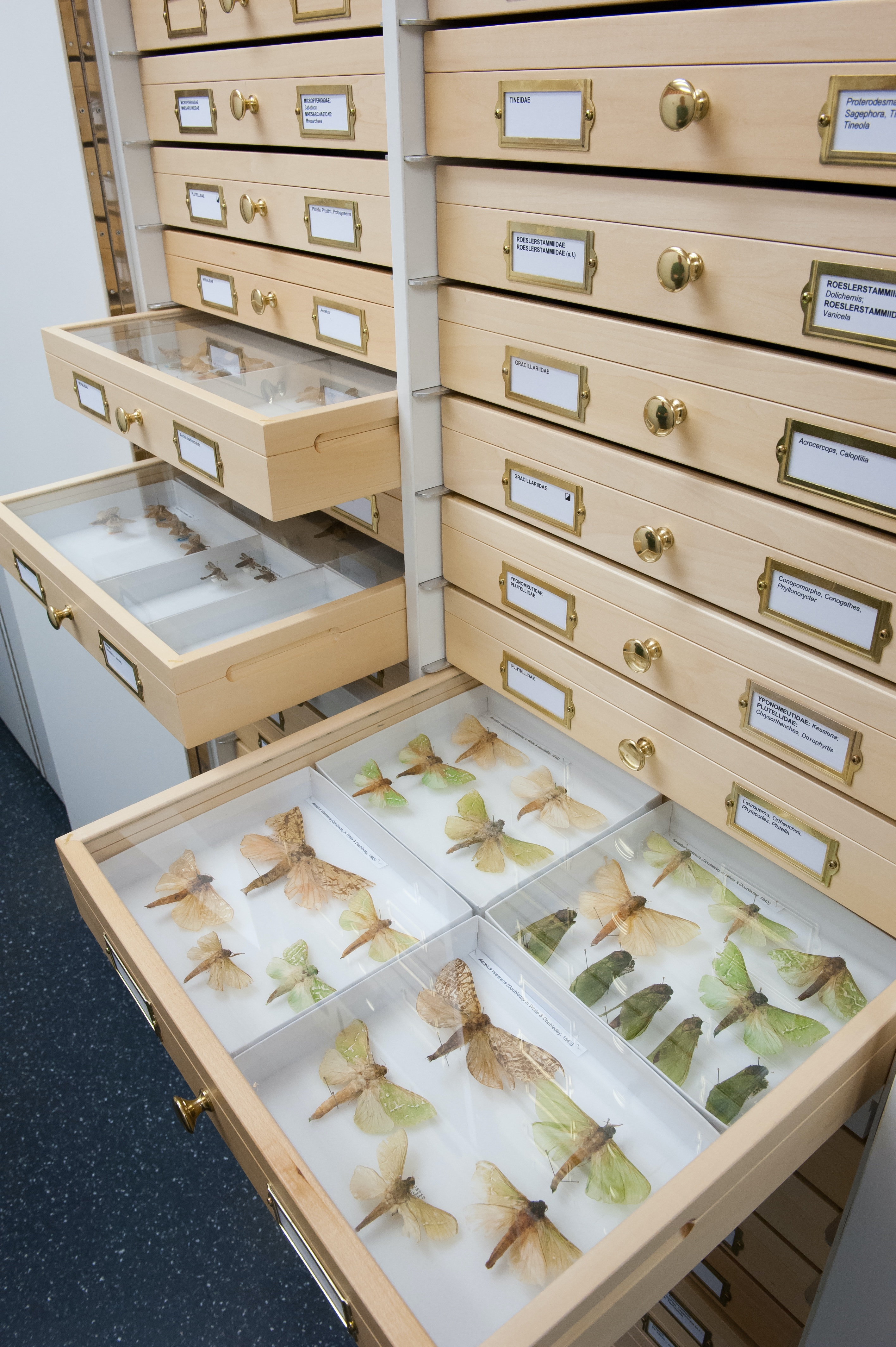 Lepidoptera specimens in the Entomology Research Collection at Lincoln University, including pūriri moths.